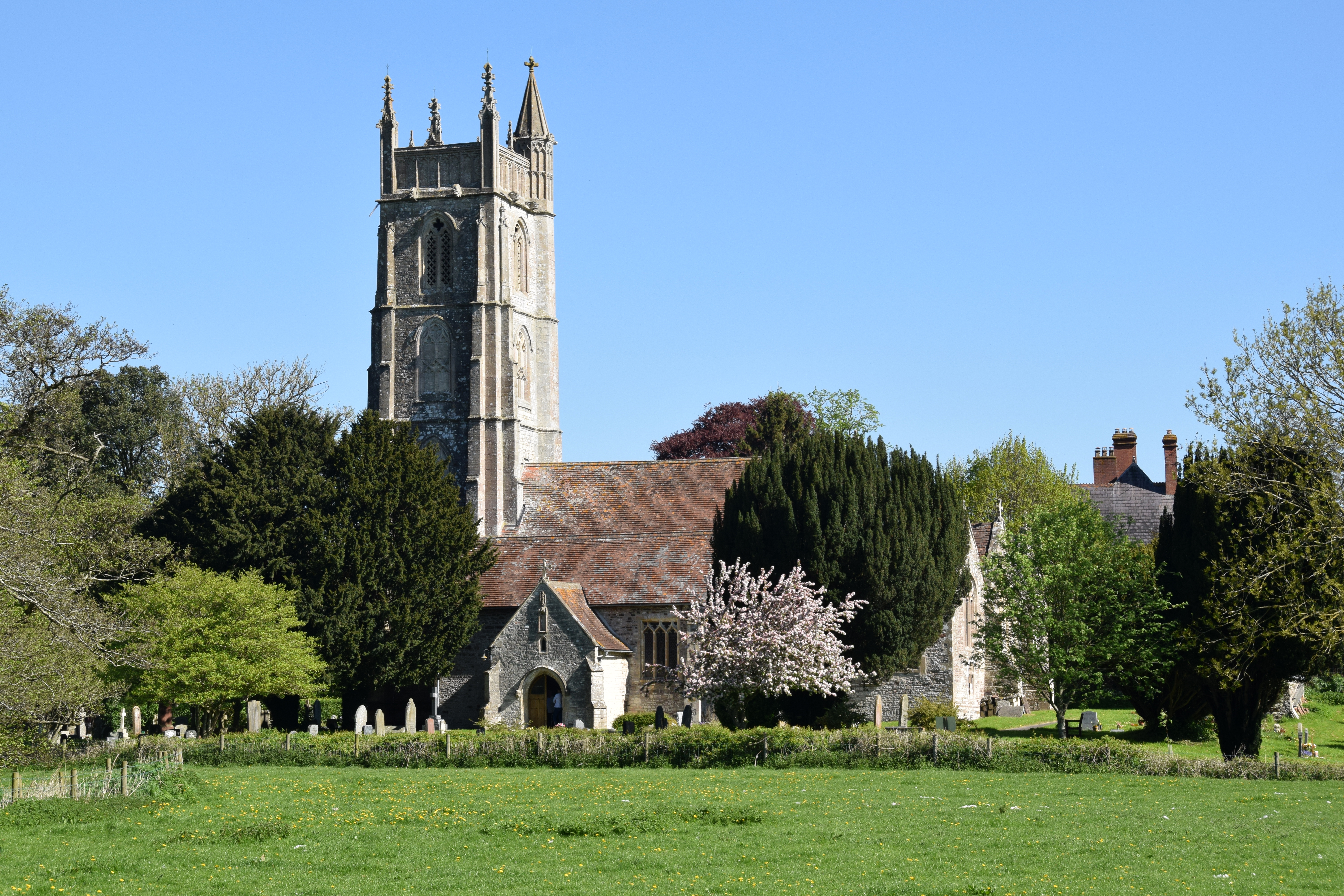 All Saints' parish church, Publow, Somerset, seen from the south Wikidata has entry Q5116801 with data related to this item.